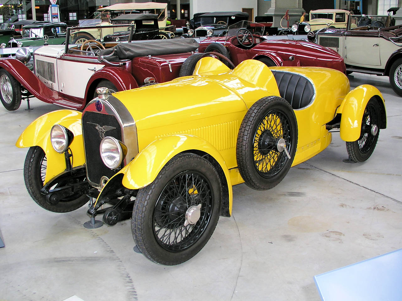 sports car with 1.3-litre 4-cylinder engine with overhead valves, made in Belgium by Fabrique Nationale d'Armes de Guerre; front-side view